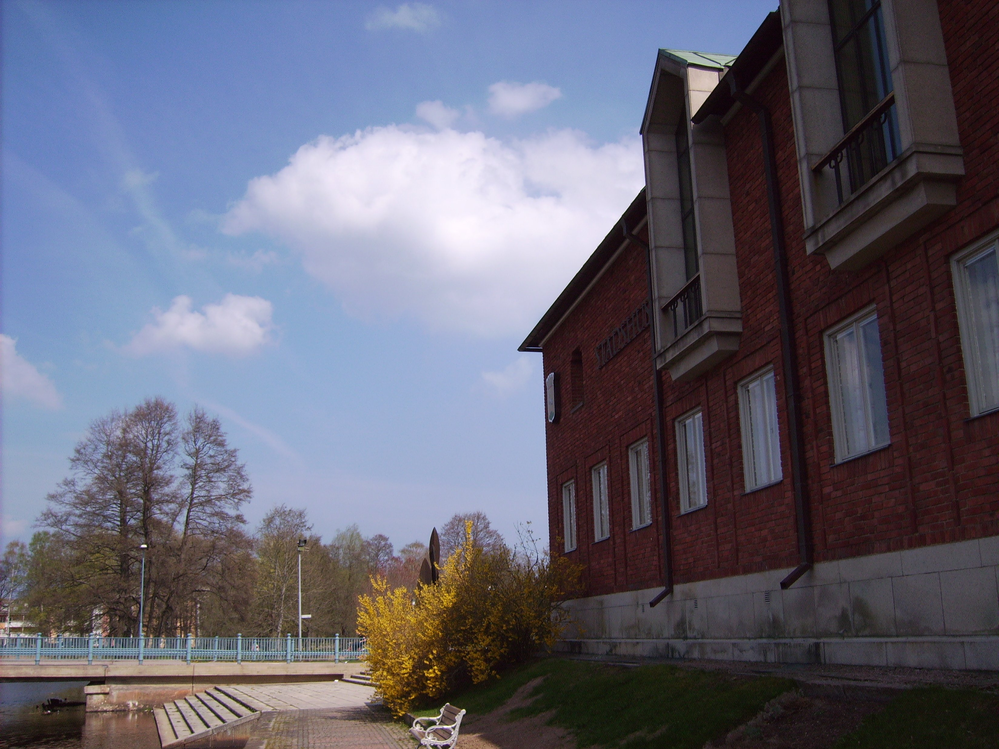 Photo by Harri Blomberg.